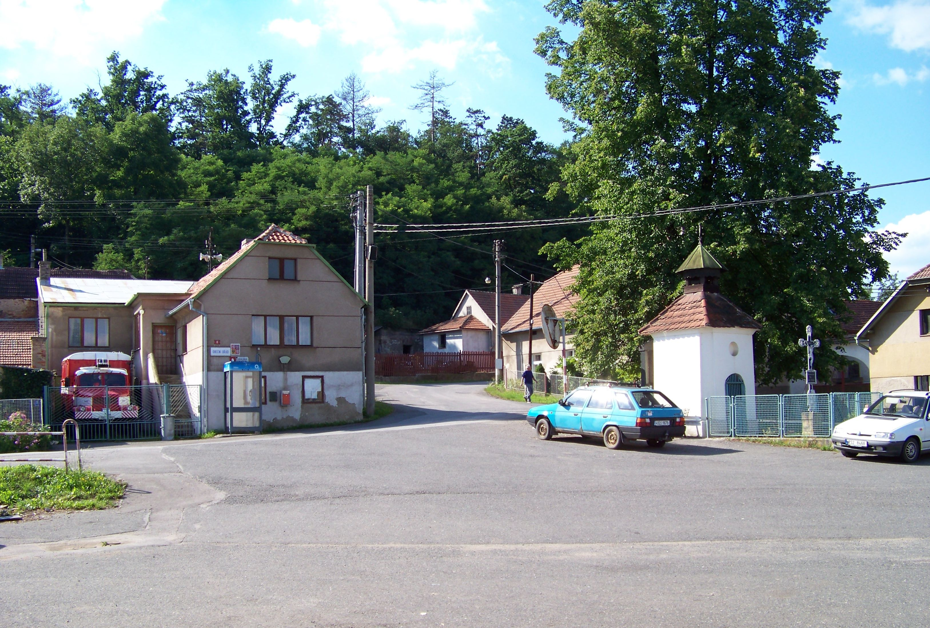 Bavoryně, Beroun District, Central Bohemian Region, the Czech Republic. A municipal common.